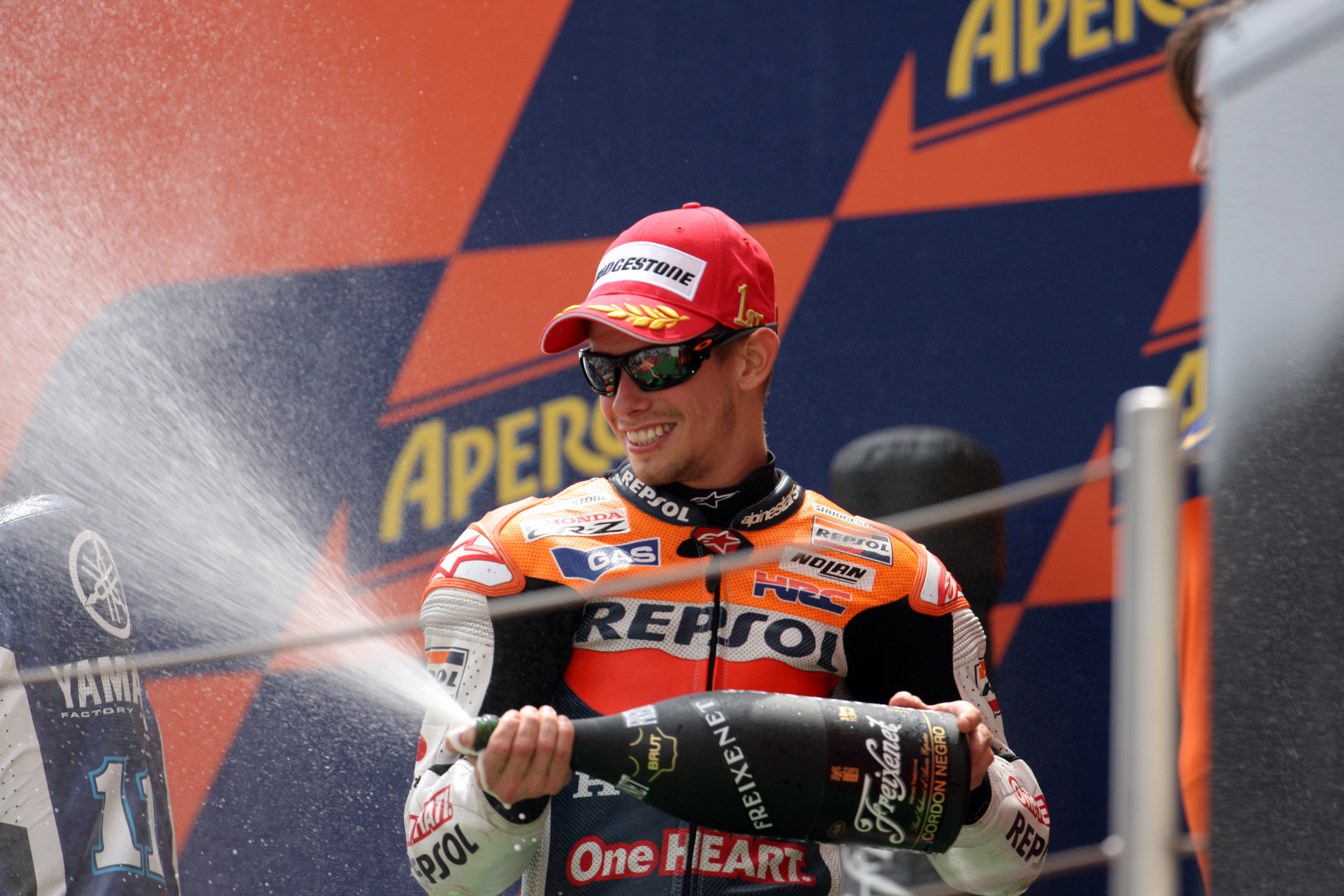 Casey Stoner, spraying the champagne and celebrating on the podium after winning the 2011 Catalan Grand Prix.